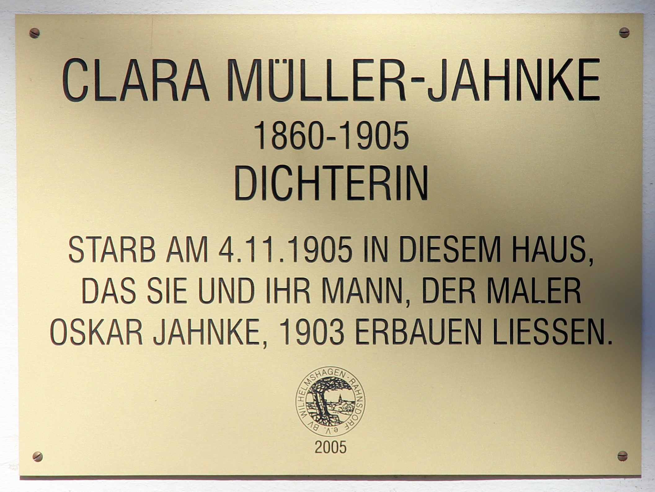 Memorial plaque, Clara Müller-Jahnke, Lassallestraße 67, Berlin-Wilhelmshagen, Germany